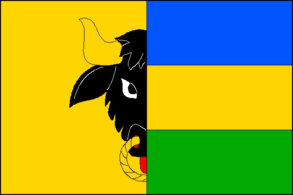 Municipal flag of Němčice nad Hanou village, Prostějov District, Czech Republic.